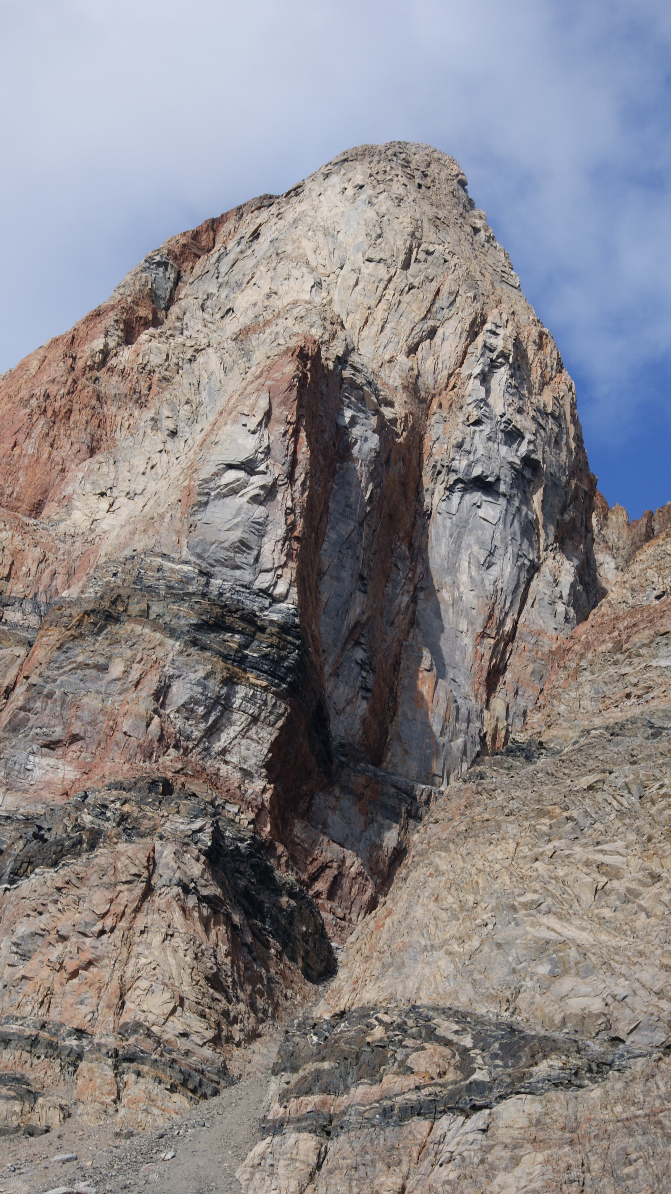 Uummannaq mountain, 1170m, Greenland. Western summit, its southern pillar, and the deep southern chimney in the southern wall photographed from the vidda above the Qasigissat bay on the western coast of Uummannaq island.